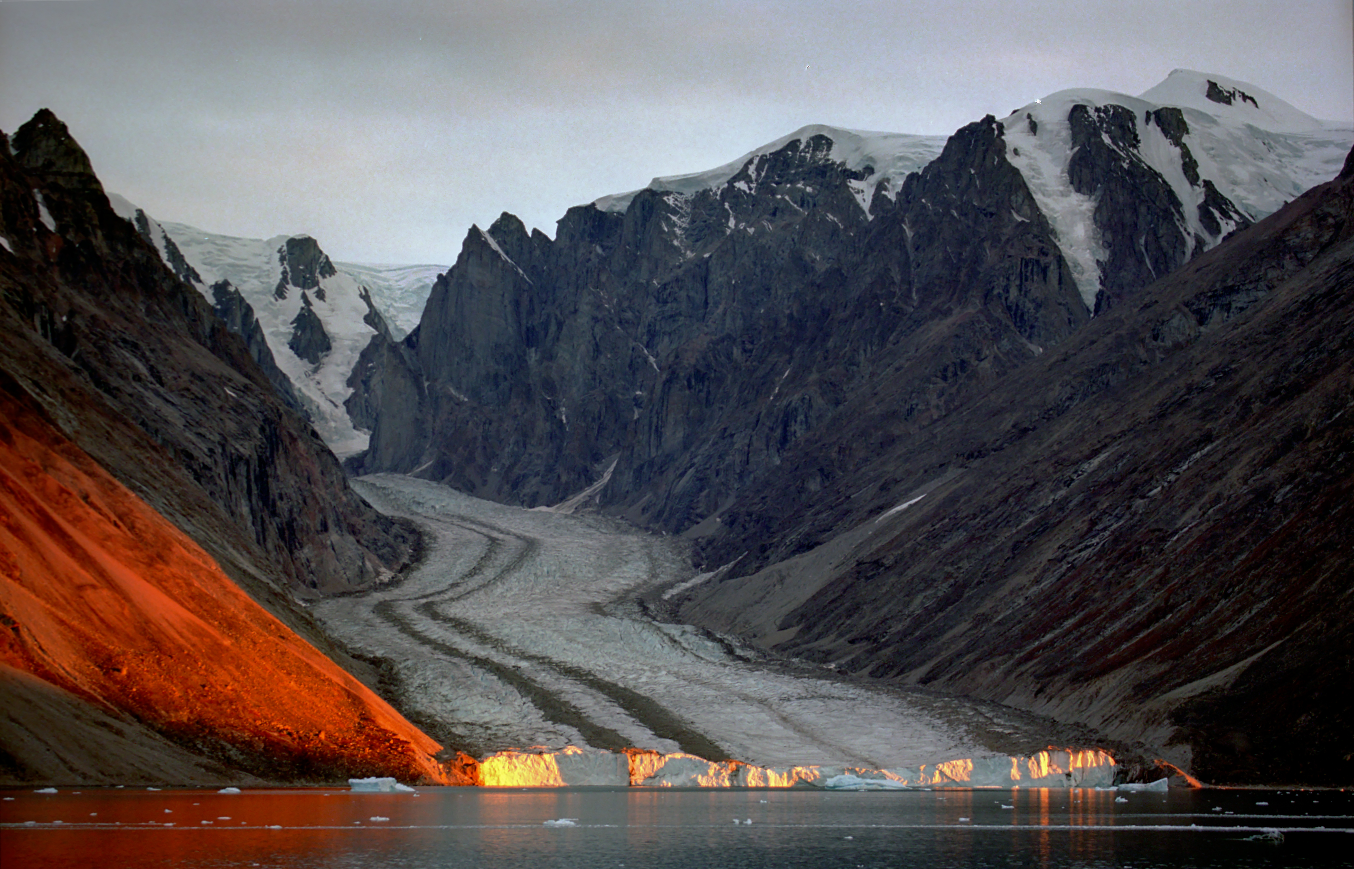 Franz Josef Fjord, glacier. The orange colour is caused by reflected sunlight.